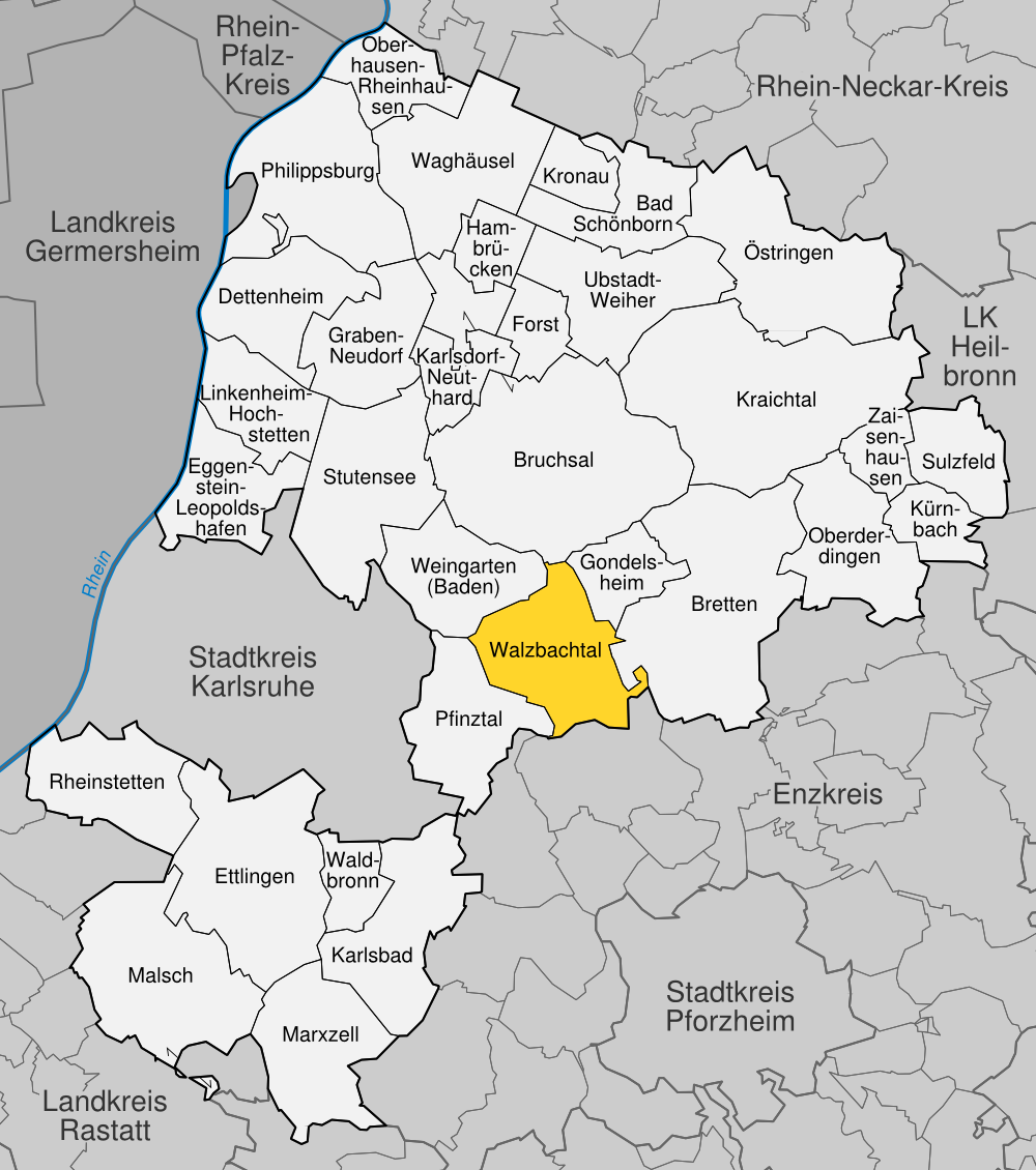 position of Walzbachtal within distict of Karlsruhe, Baden-Württemberg, Germany